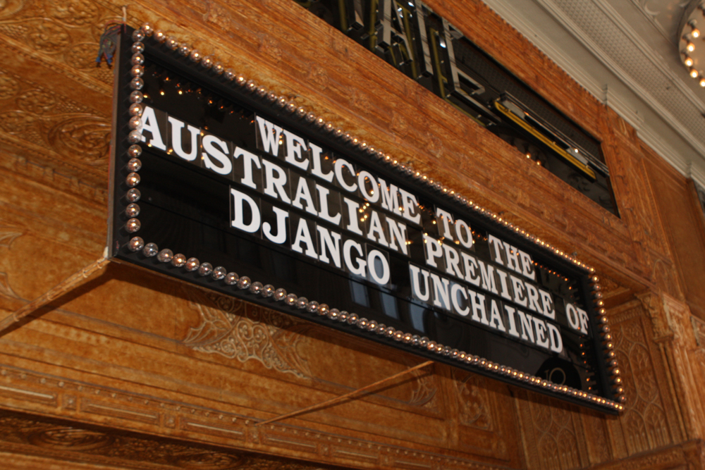 Django Unchained red carpet movie premiere: Sydney, Australia - 21st January 2013.